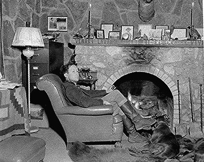 [John] Joseph Mathews, Osage council member, author, historian, and Rhodes scholar, seated at home in front of his fireplace, Oklahoma.